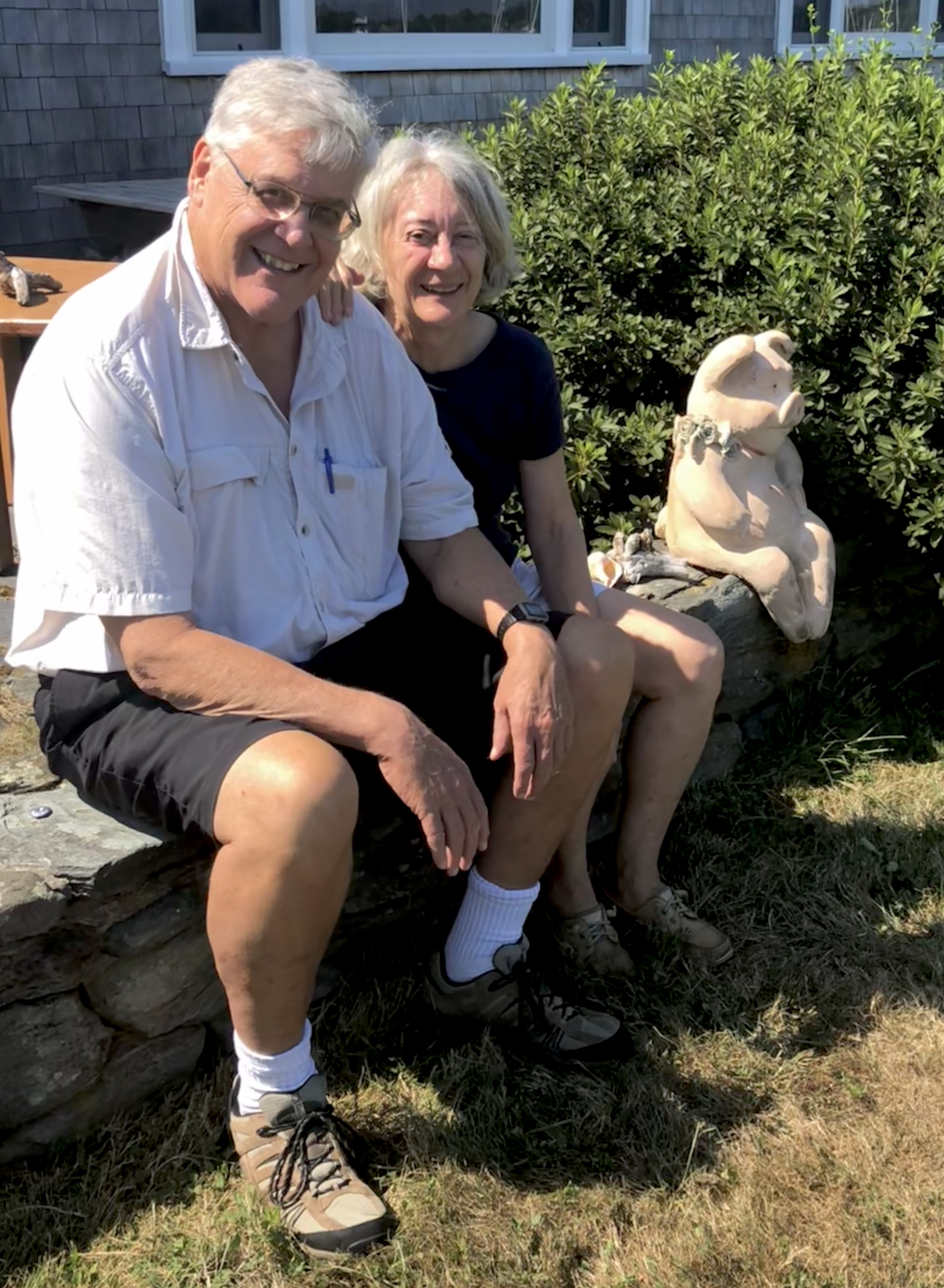 Bill Hobbs and his wife, Elizabeth, at their home in South Dartmouth, MA in August 2018